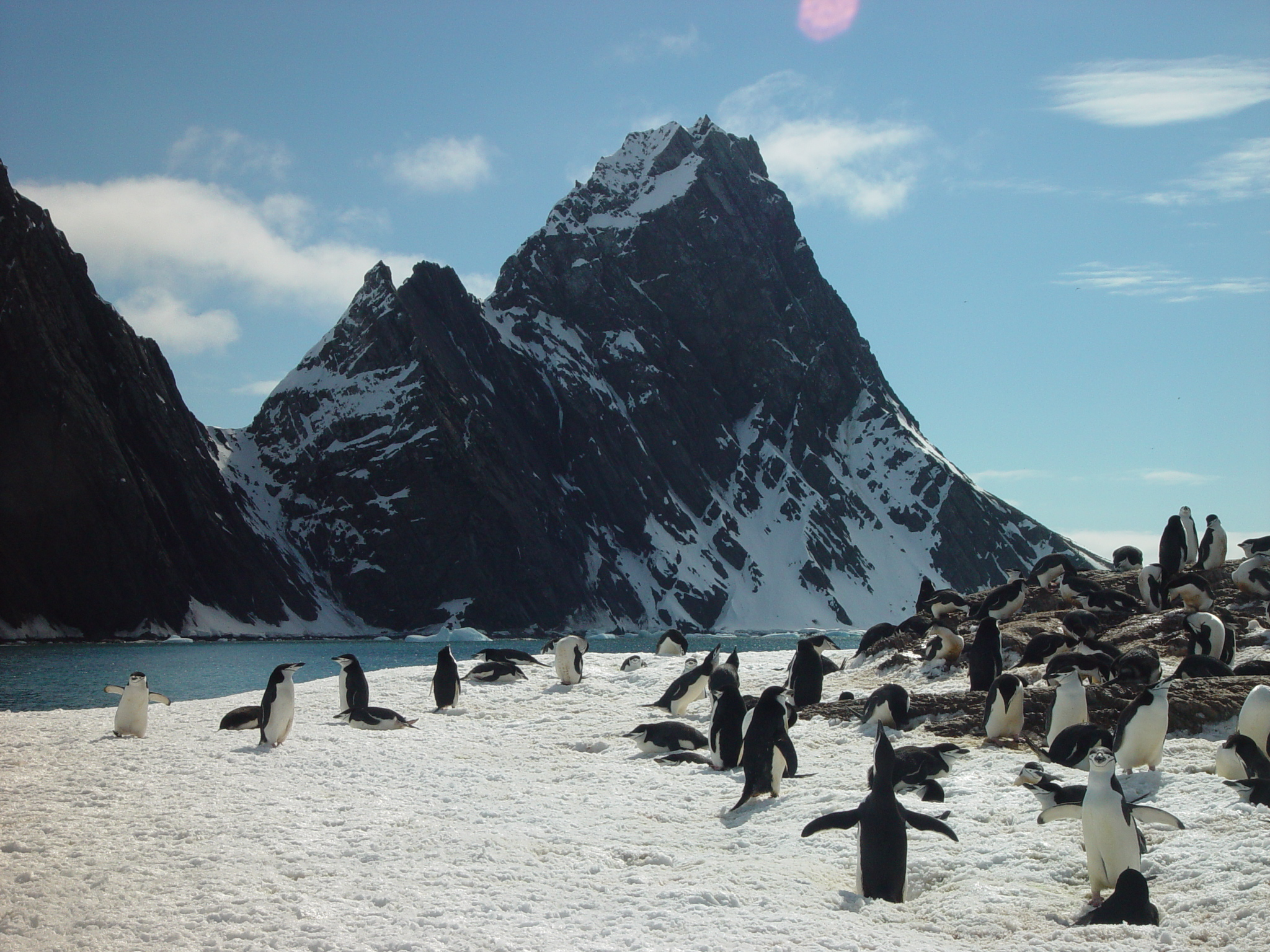 Elephant Island, Cape Wild